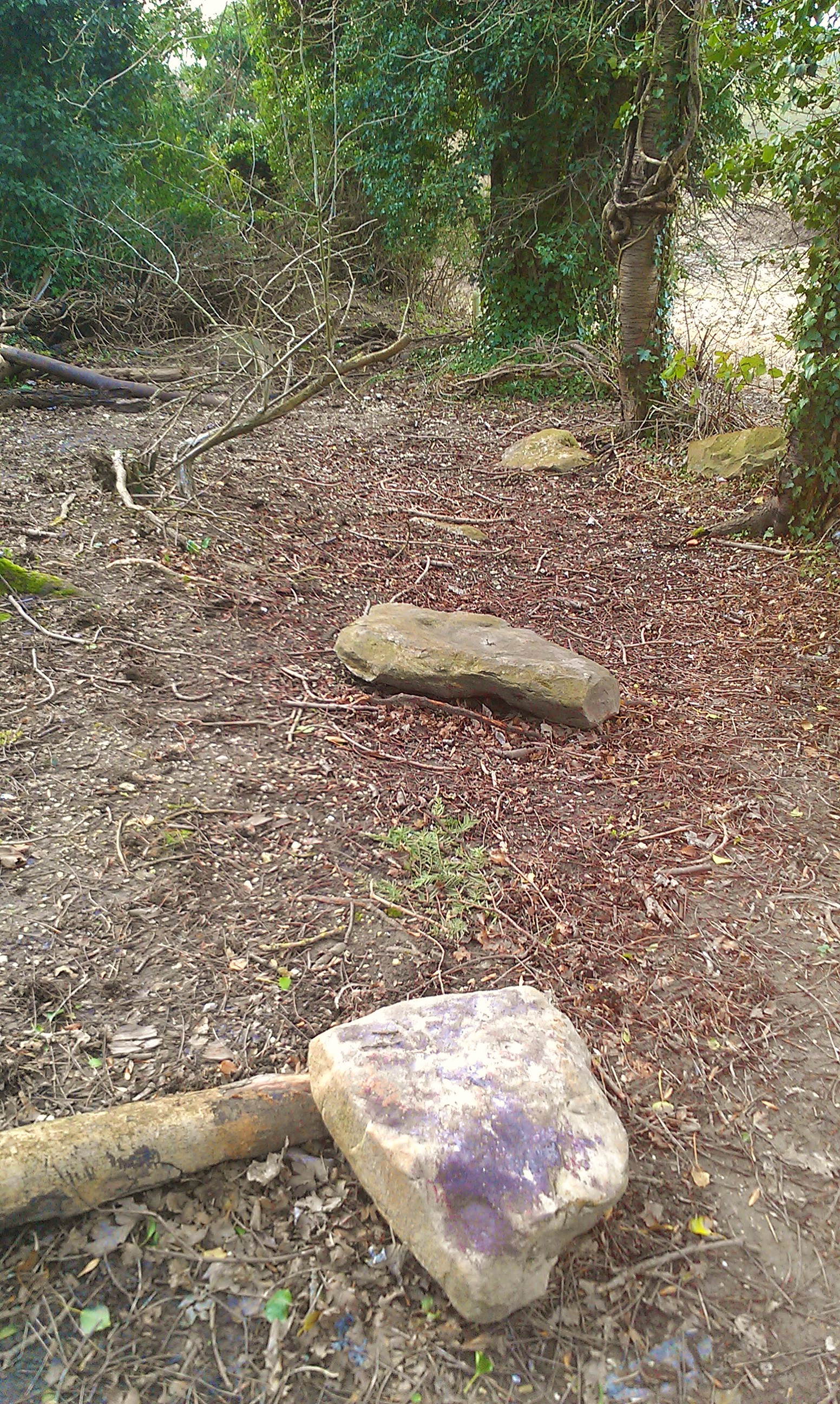 Scattered sarsen stones along by the White Horse Stone in Kent, one of the Medway megaliths.